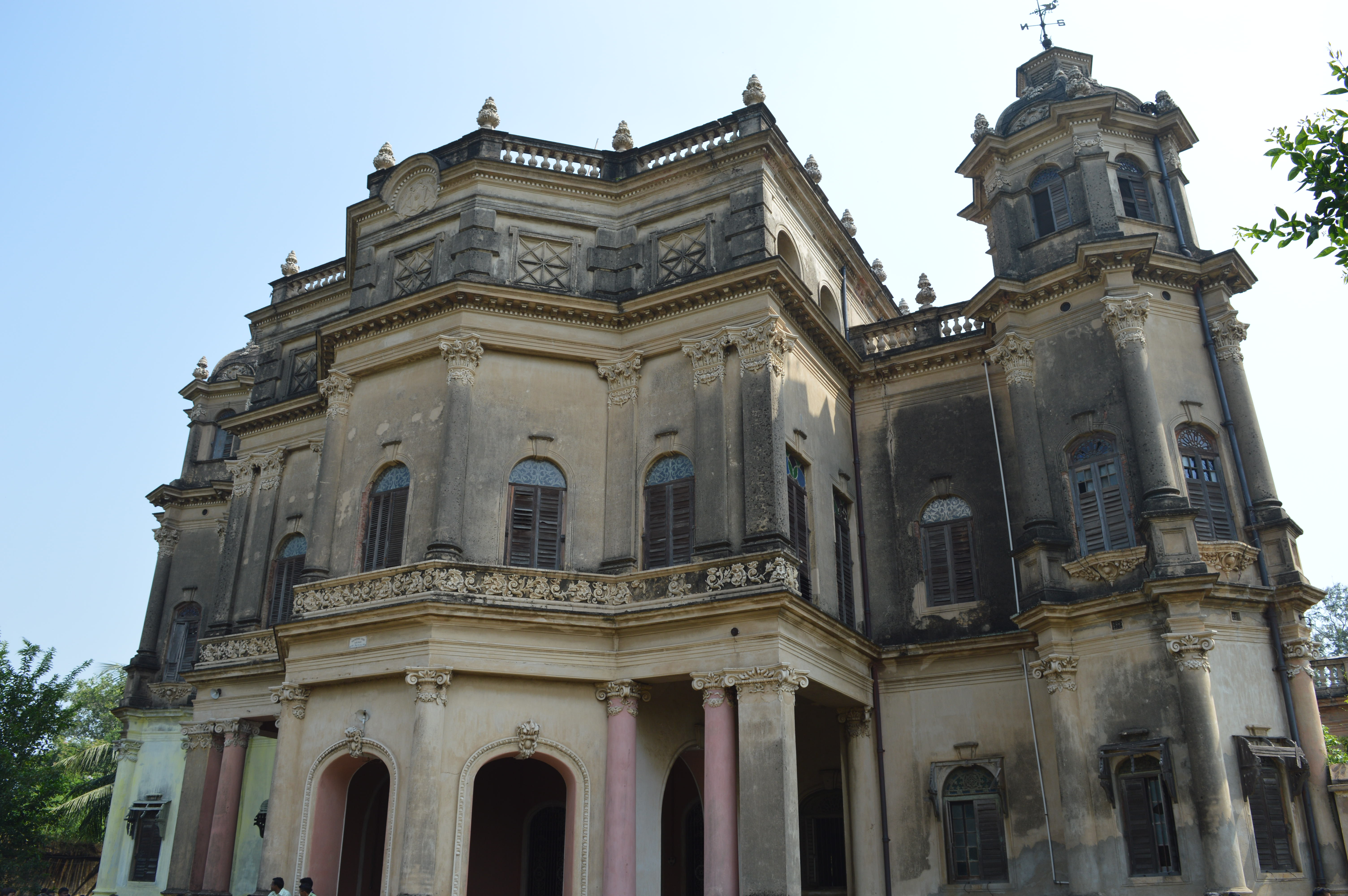 Kashipur Palace, Purulia district